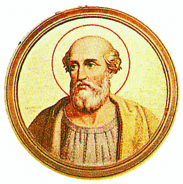 Portrait of Pope Hyginus un the Basilica of Saint Paul Outside the Walls, Rome